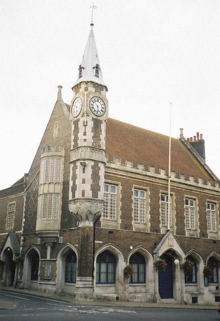 Dorchester: The Corn Exchange Standing right in the centre of town, opposite the top of South Street, this distinctive municipal building dates from 1848. It is available for hire from Dorchester Town Council for all manner of social events.